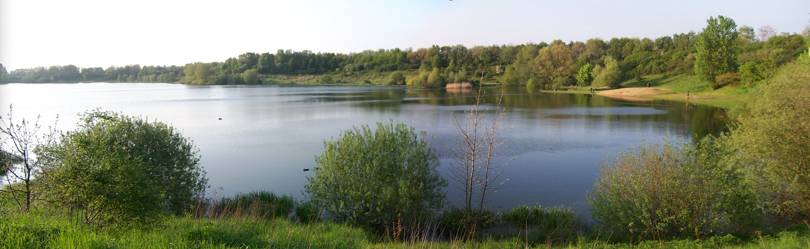 Lake called Eixer See near Peine, Lower Saxony, Germany